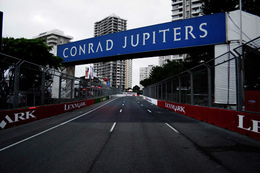 Indy track during the last construction